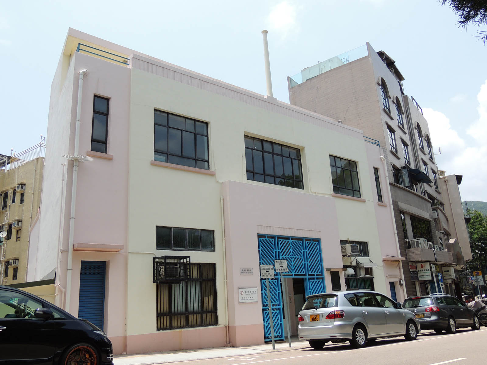 Stanley Public Dispensary, No. 14 Wong Ma Kok Road, Stanley, H.K